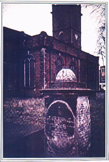 Marker above the Badley family vault at Saint Edmund's Church, Dudley, West Midlands, England.